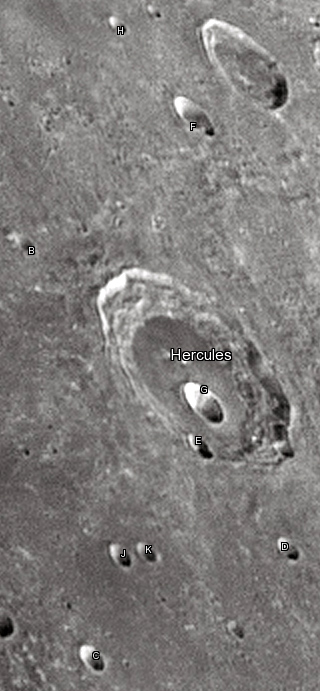 Hercules lunar crater as seen from Earth with satellite craters labeled